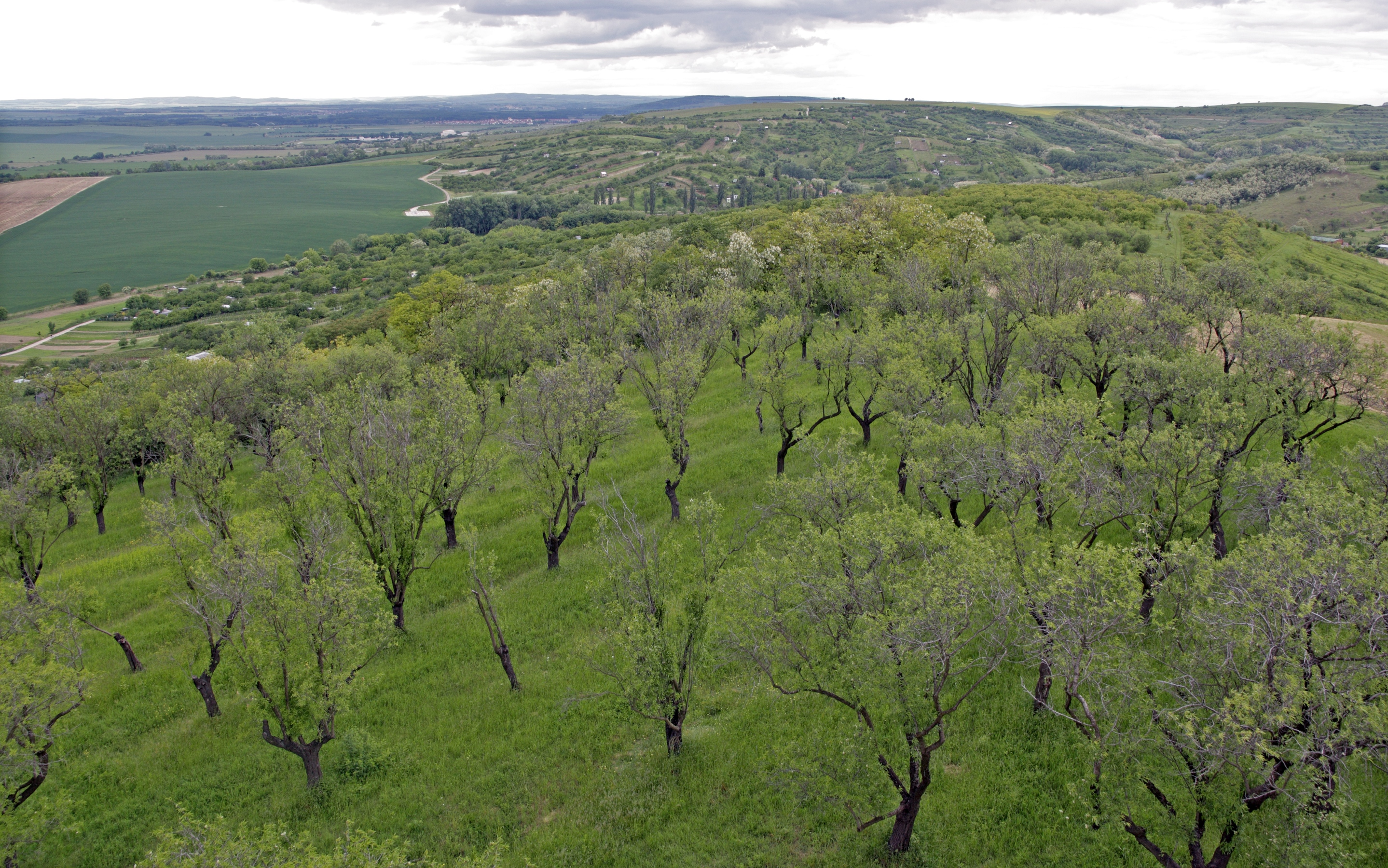 Almond tree orchard in Hustopeče-in food of the hill burial place of president Thomas Masaryk parents